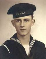 Family photograph of Thomas Arthur Garner, 1924 - 1945